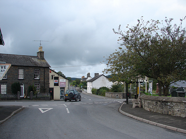 Llanilar Junction of the A485 and B4575 roads.